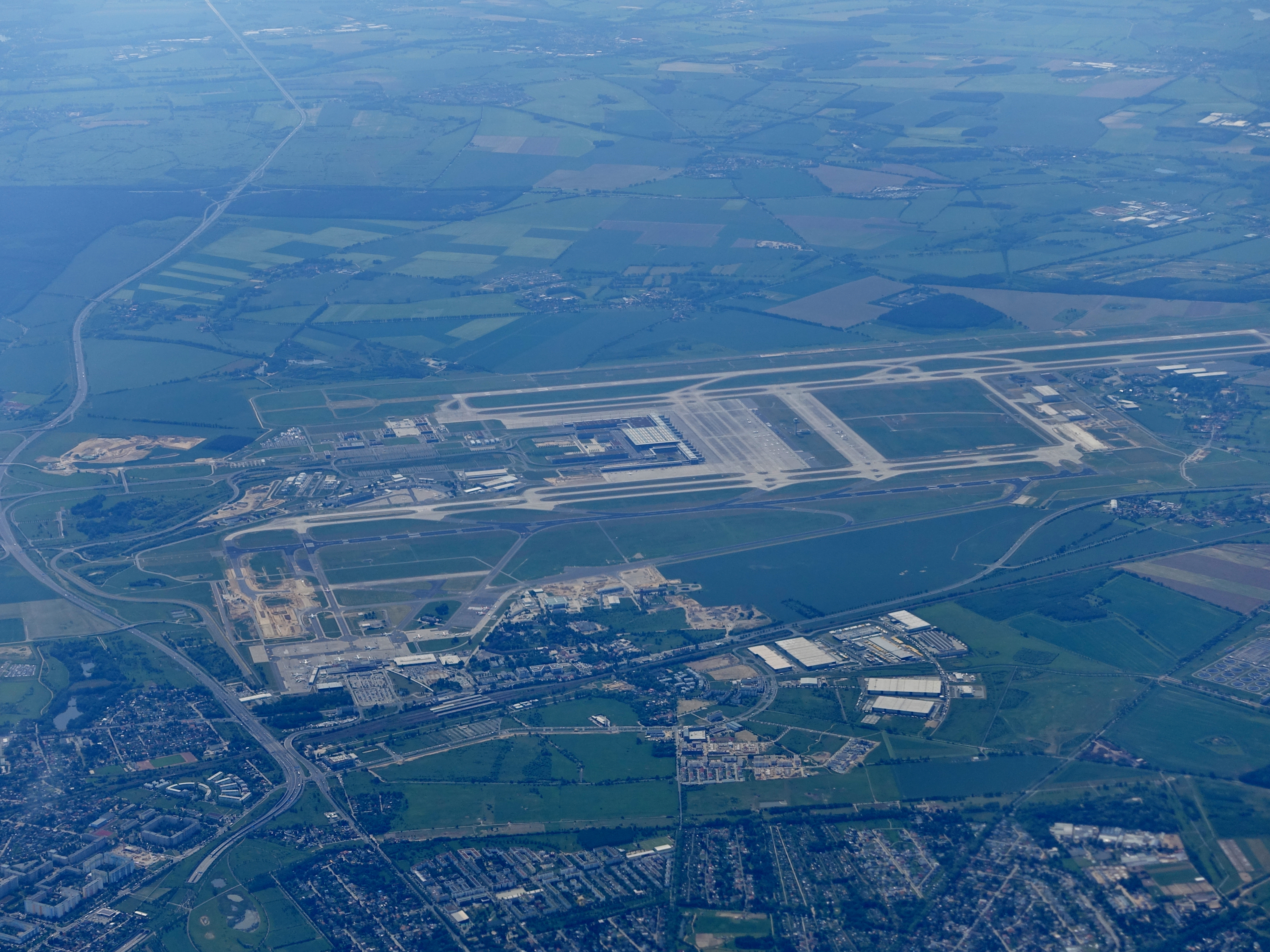 View of the Berlin Brandenburg airport's construction site, Brandenburg, Germany, with Berlin Schönefeld Airport at the bottom.